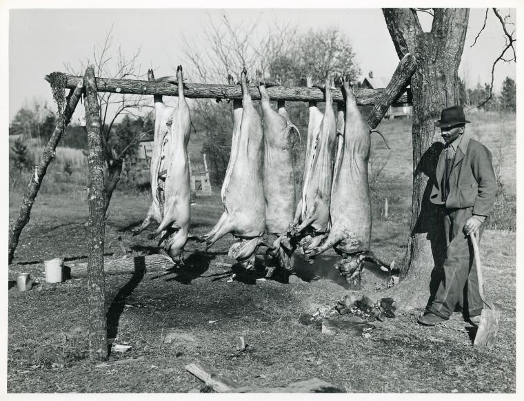 "Hog killing on Milton Puryeur place; He is a Negro owner of five acres of land; Rural Route No. 1, Box 59, Dennison, Halifax County, Virginia; This is six miles south [on Highway No. 501] of South Boston; He used to grow tobacco and cotton but now just a subsistence living; These hogs belong to a neighbor landowner; He burns old shoes and pieces of leather near the heads of the slaughtered hogs while they are hanging to keep the flies away." Photograph by Marion Post Wolcott from the U.S. Farm Security Administration, courtesy of the New York Public Library Digital Collection.